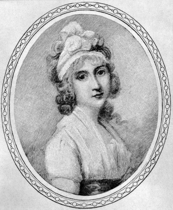 Print after a painting of Angelica Schuyler Church by Richard Cosway, circa 1790